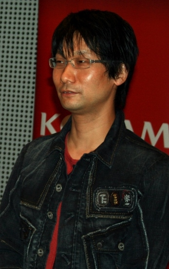 Cropped version of [1].